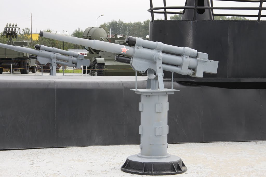 Verkhnyaya Pyshma Tank Museum 2011